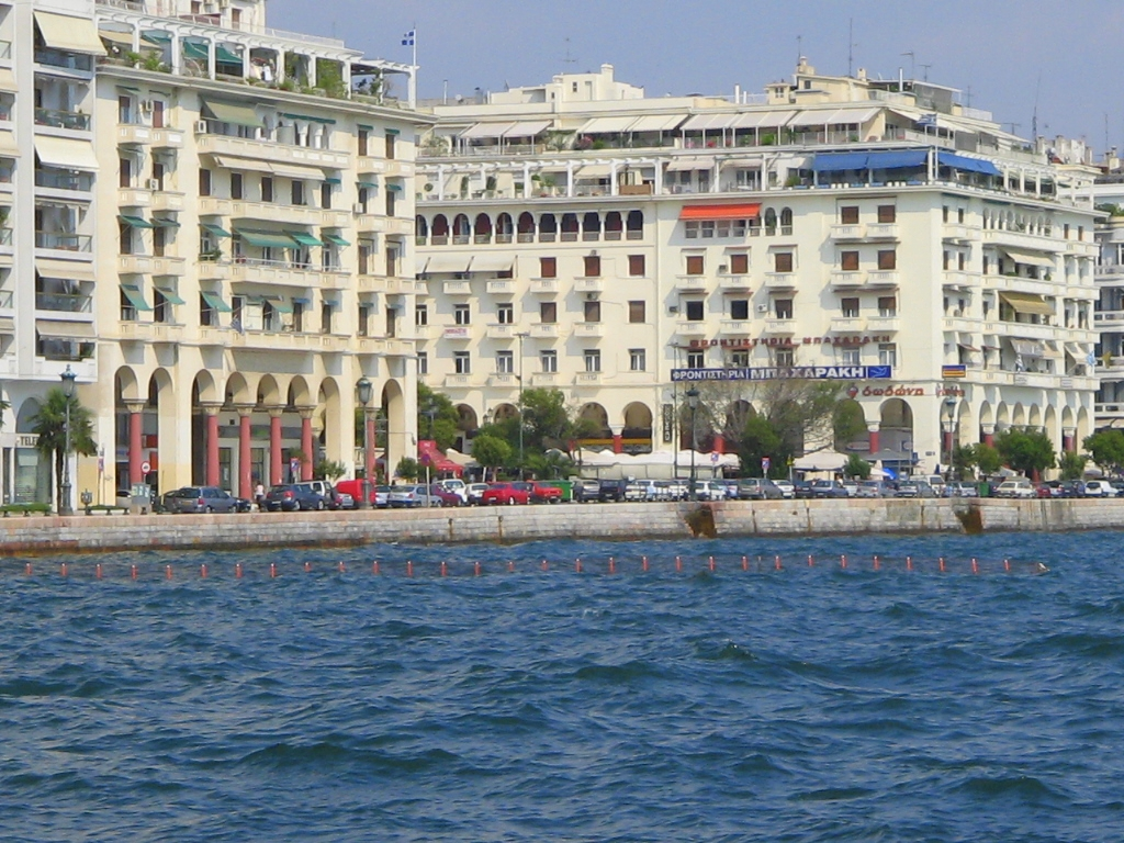 The paralia (promenade) at Aristotelous Square in Thessaloniki, Greece.